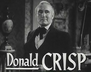 Cropped screenshot of Donald Crisp from the trailer for the film Jezebel.